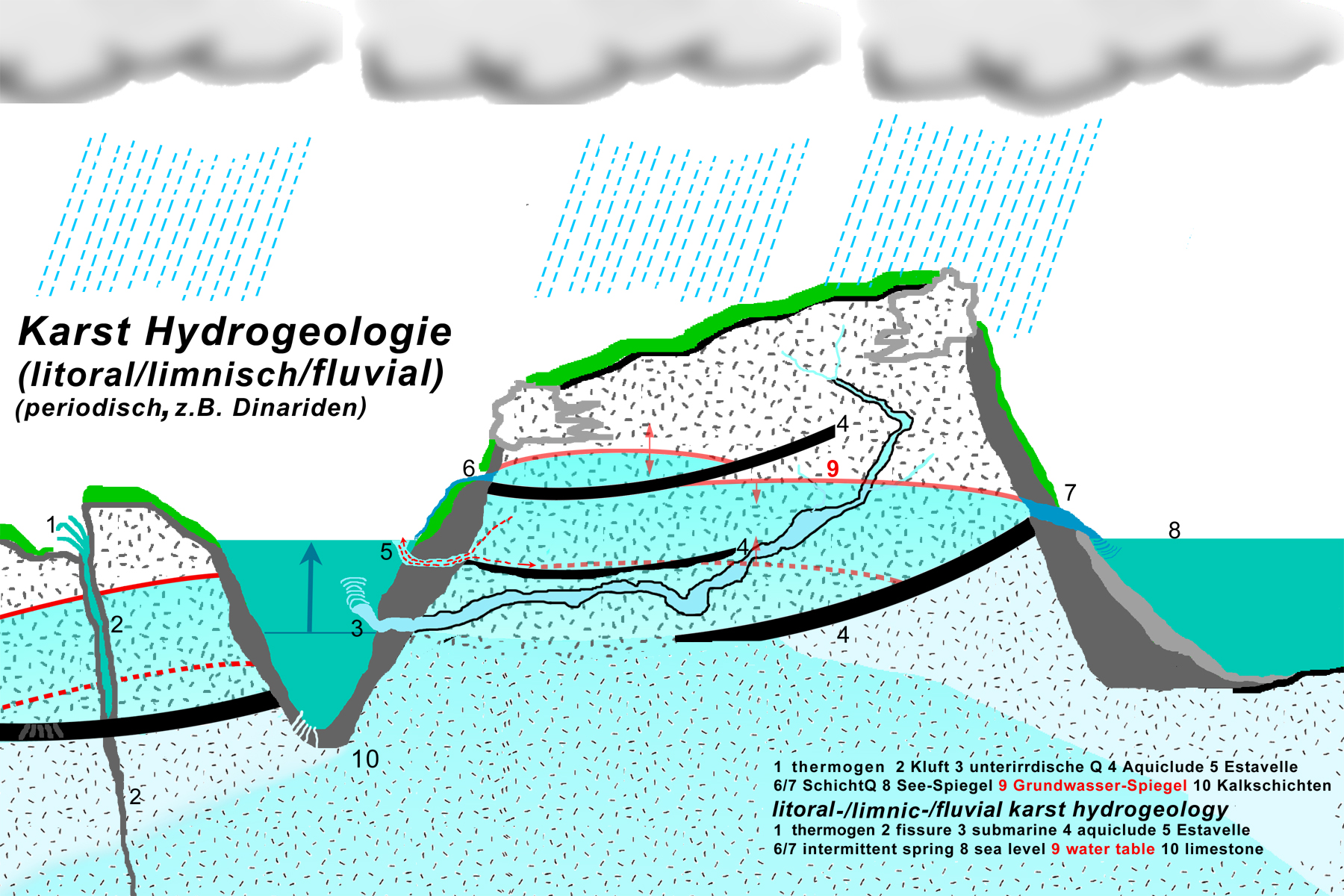 Hydrogeologic schema of subaquaeous karst conduits and karst springs. There are a few subaquaeous karst springs in Greece and many at the northern hemisphere of the Mediterranean Sea. In case a spring is coastal or submarine (saline water), brackish water is even measured at maximum outflow up the karst conduit. When precipitation is seasonally high, as this happens for instance in the Dinarids (esp. Orjen with annual average precipitation of up to 6500 mm) subaquaeous Estavelles are possible. The phenomenon is scarcely documented.